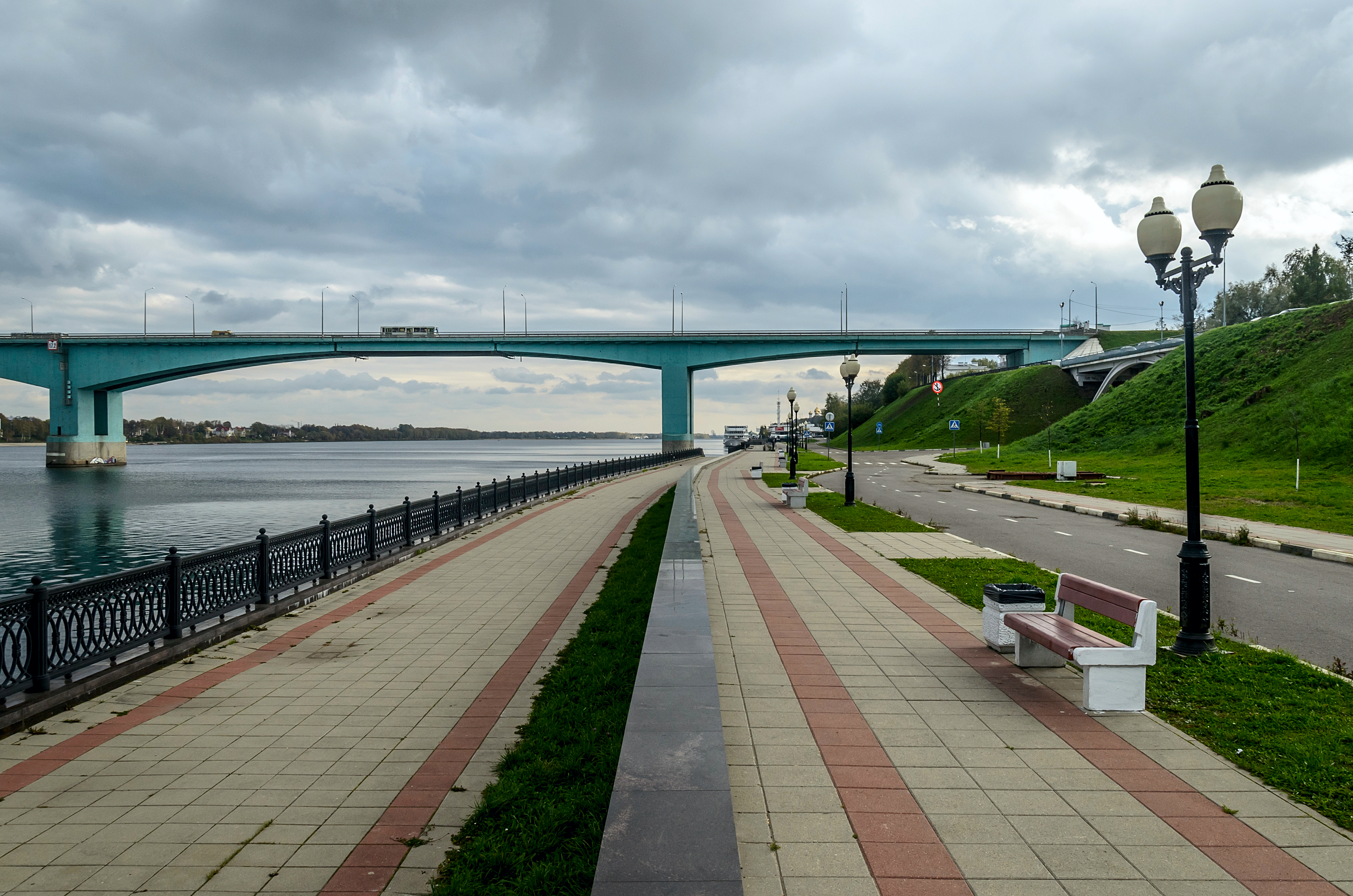 Volzhskaya Embankment in Yaroslavl